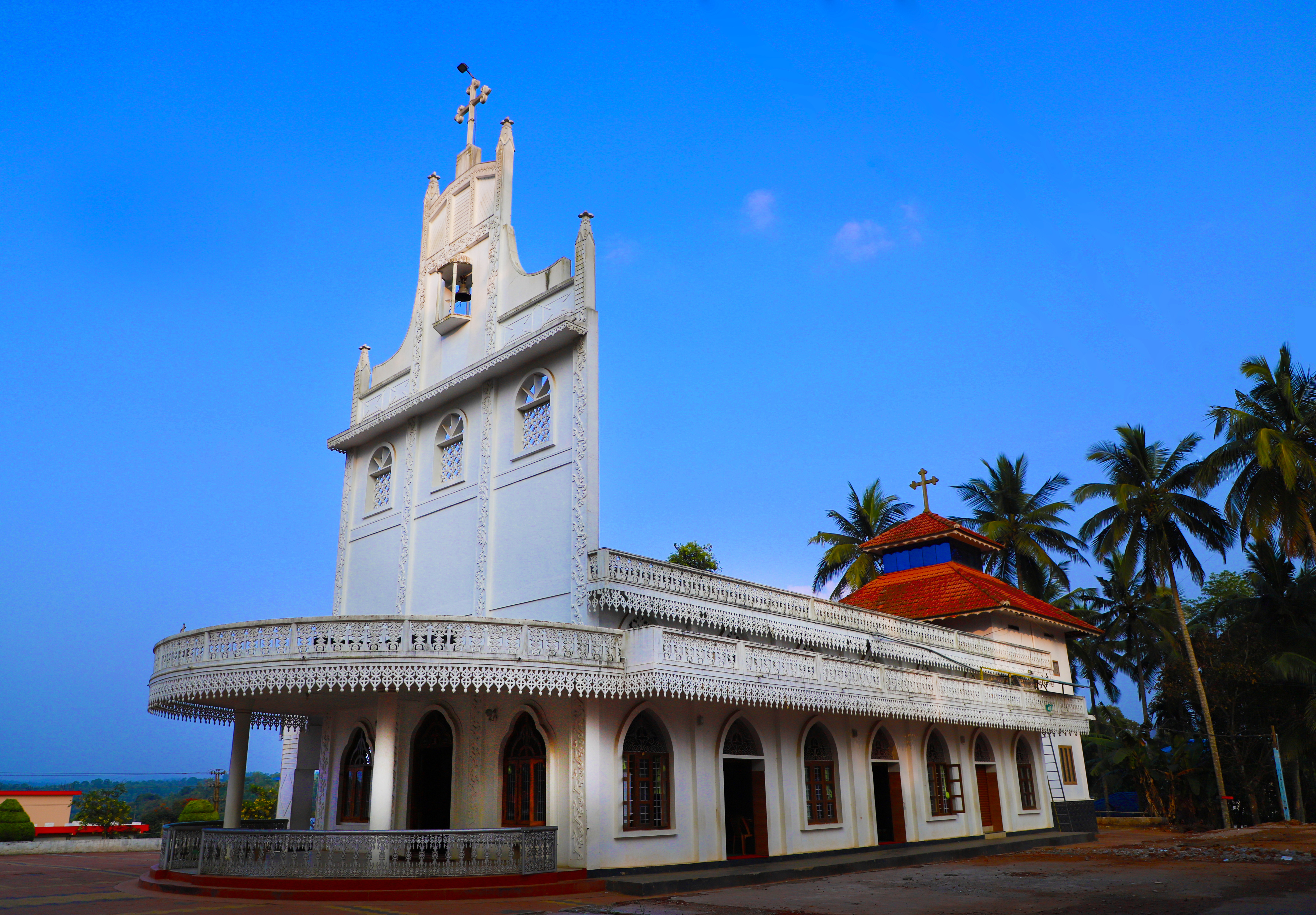 view of church Took on the Camera of Sobin P Noble